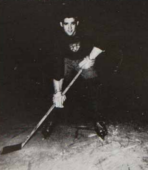 Johnny Peirson at McGll University